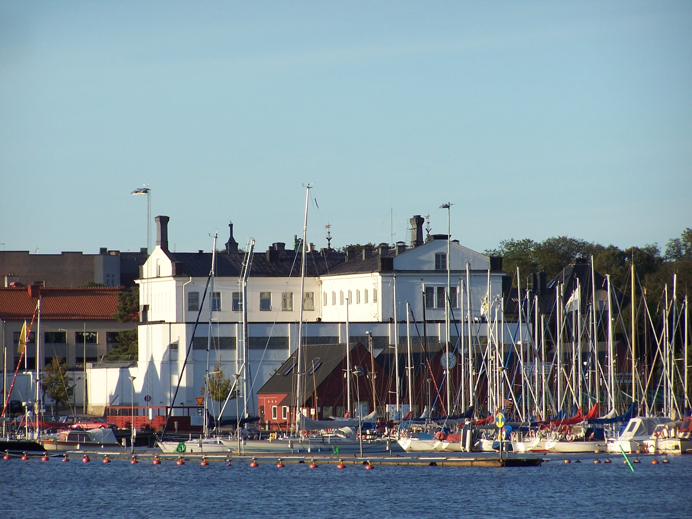 The prison in Karlskrona with the guest harbor in front. Locally it's called "Vita Briggen" (white brig).